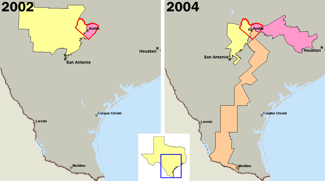 U.S. congressional districts covering Travis County, Texas (outlined in red) in 2002, left, and 2004. In 2003, Republicans in the Texas legislature redistricted the state, diluting the voting power of the heavily Democratic county by parceling its residents out to more Republican districts. Created by me using Microsoft MapPoint 2004 and data from The district in orange is the infamous "Fajita strip" district 25 (intended as a Democratic district), while the other two districts (10 and 21) are intended to elect Republicans. District 25 has now been redrawn as a result of the 2006 U.S. Supreme Court decision, and is no longer a "Fajita strip". This work has been released into the public domain by its author, PHenry. This applies worldwide. In some countries this may not be legally possible; if so: PHenry grants anyone the right to use this work for any purpose, without any conditions, unless such conditions are required by law.